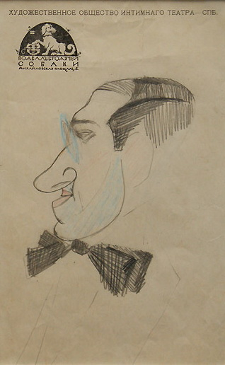 A. Lurie by anonymous (1910s, Akhmatova's museum)